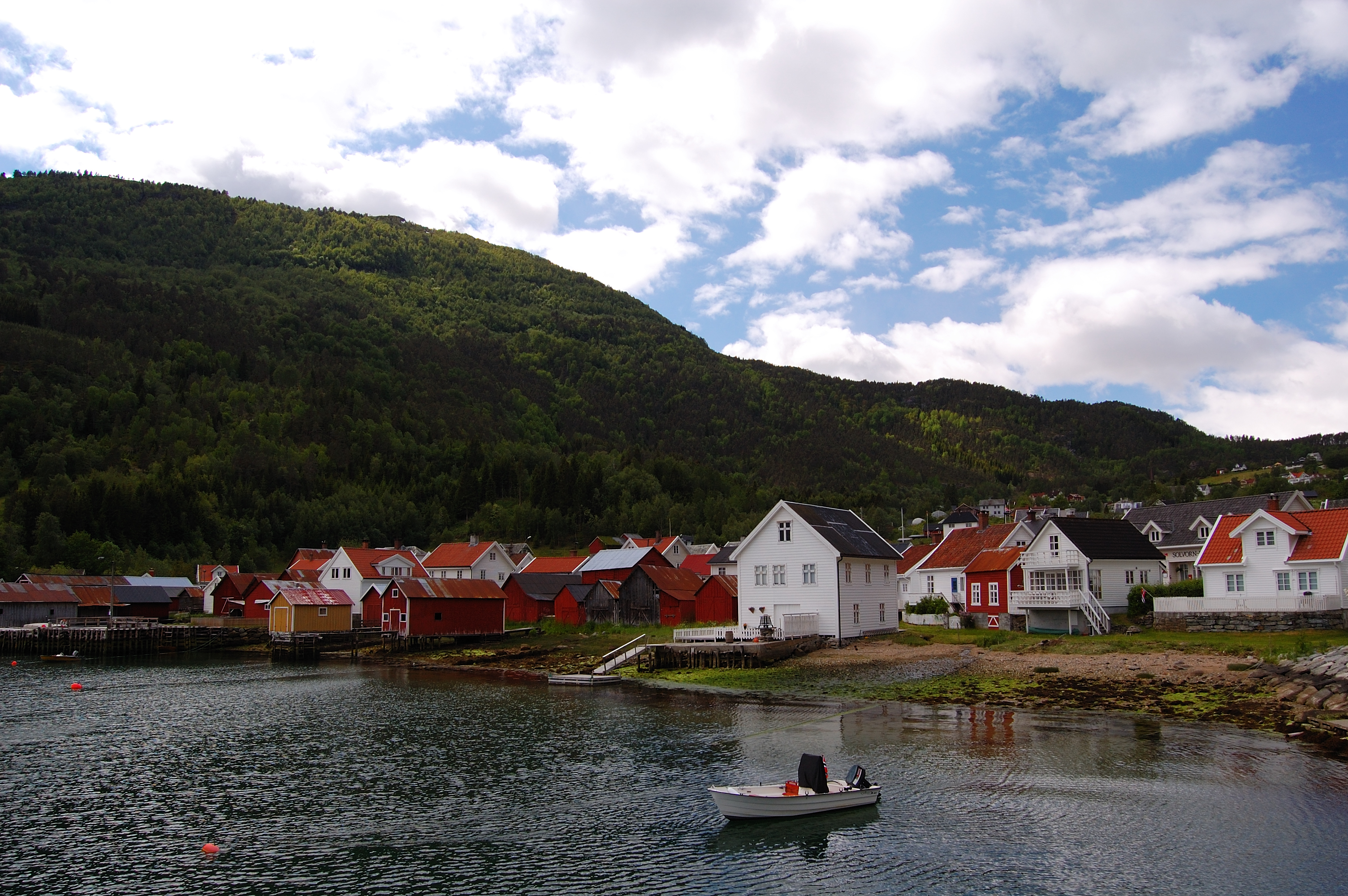 Houses in Solvorn village in Sogn og Fjordane in Norway.